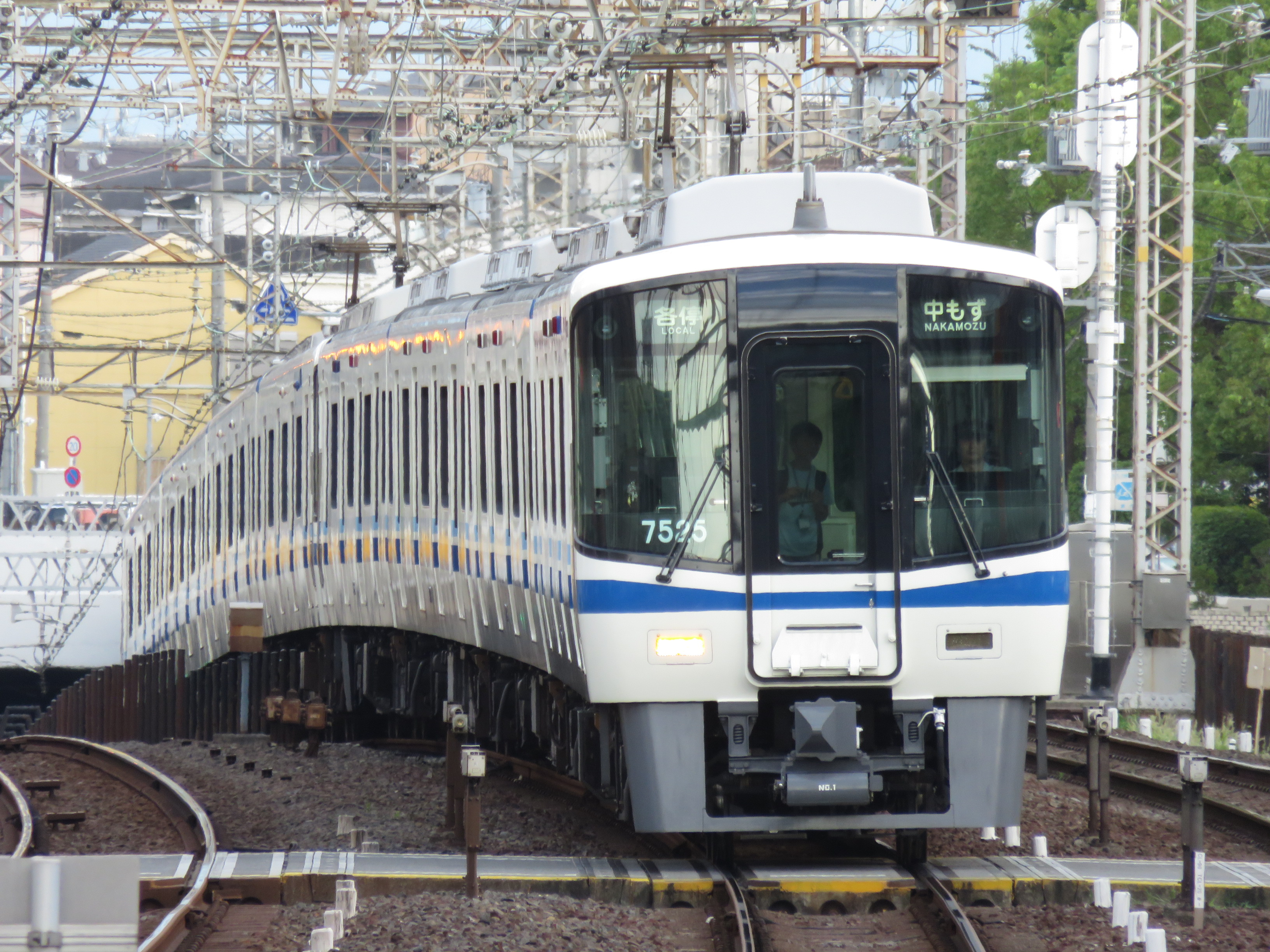 Semboku 7020 series